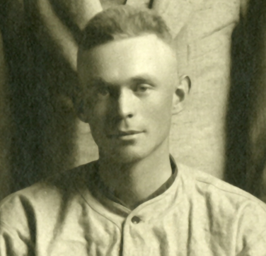 Photograph of Burdette "Bob" Glenn, baseball player, cropped from team portrait of the 1918 University of Michigan baseball team.